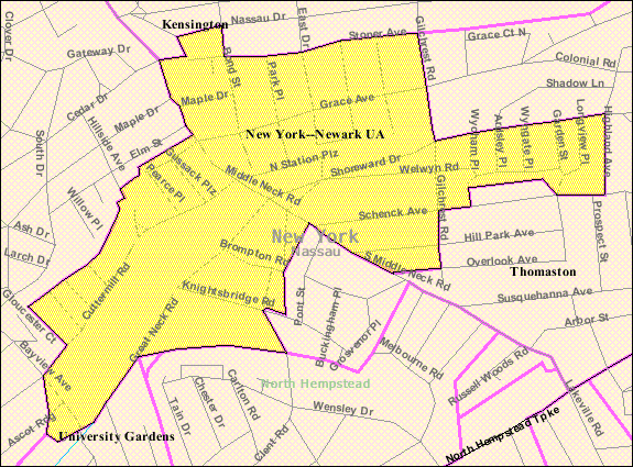 U.S. Census 2000 reference map for Great Neck Plaza, New York